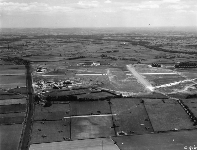 IWM caption : Oblique aerial view of RAF Hawarden, Flintshire, from North-north-west. Part of the Vickers Armstrongs shadow factory can be seen at right with, to its left, completed Wellingtons parked in front of the Vickers Flight Shed. The hangars on the eastern and southern edges of the airfield were occupied by No. 48 Maintenance Unit and No. 57 Operational Training Unit. In the foreground Wellingtons and other aircraft can be seen staked out in adjoining fields in order to ease overcrowding on the airfield while the concrete runways and taxiways are being constructed.